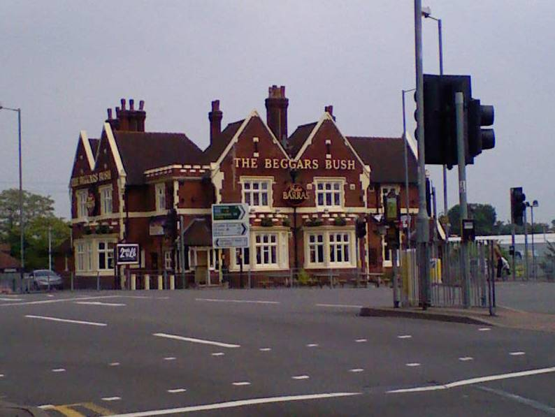 The Beggar's Bush pub in New Oscott, photographed from the front seat of my car yesterday afternoon on the way to Tesco ;-)